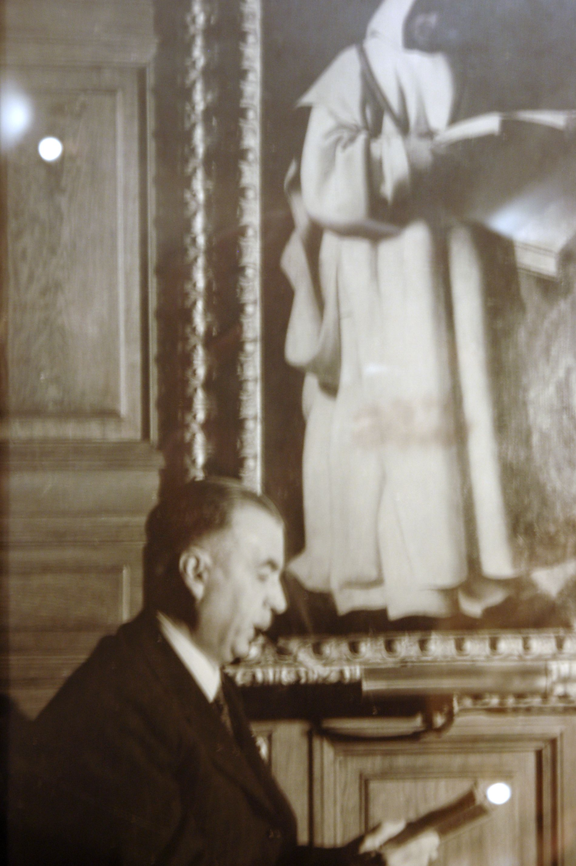 Miquel Mateu. Was mayor of Barcelona and president of La Caixa de Pensions.